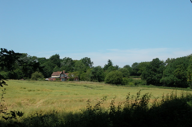 The house in the distance was once Privett station on the now disused Meon Valley Railway in Hampshire, England.